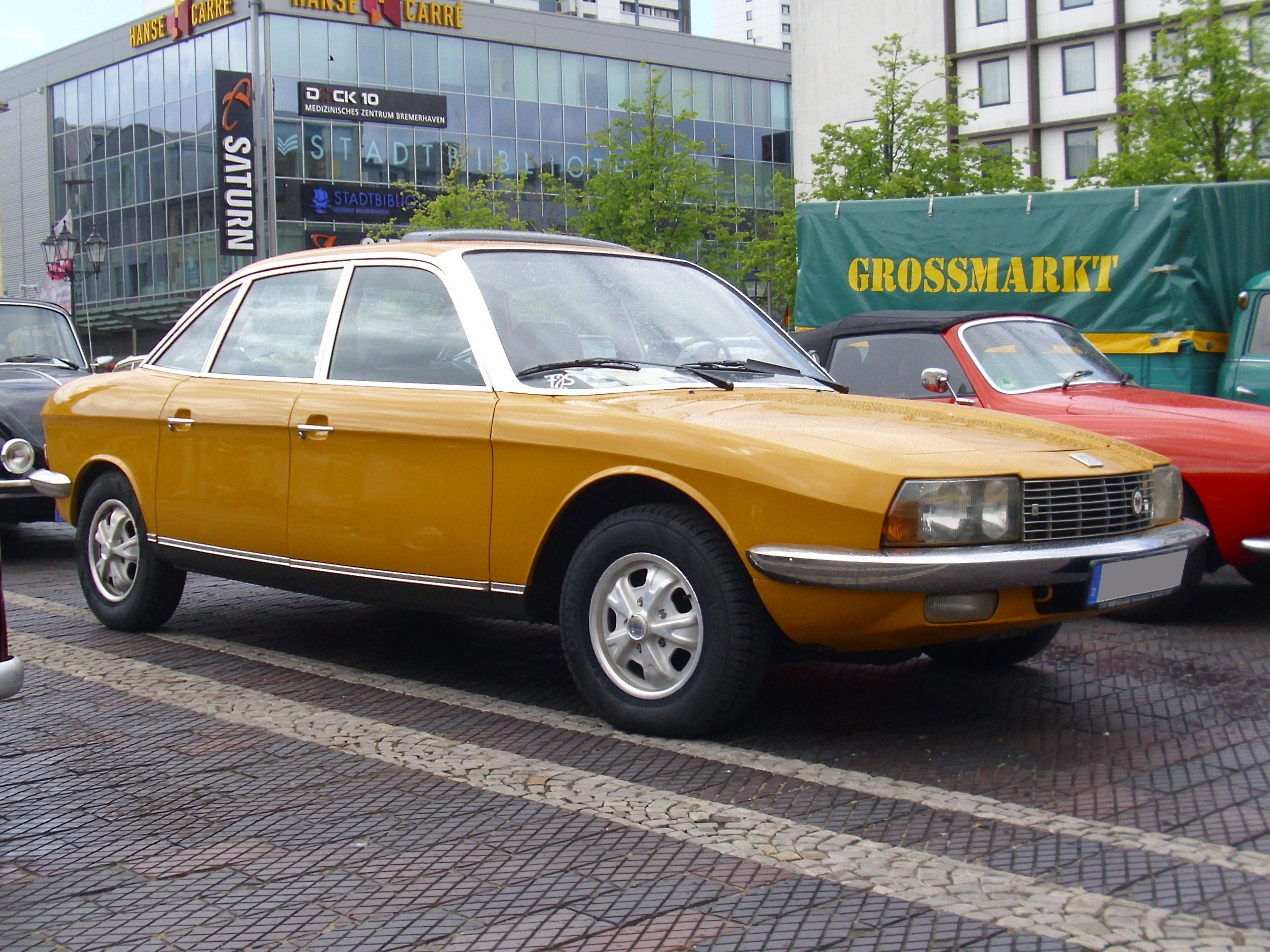 A NSU Ro 80